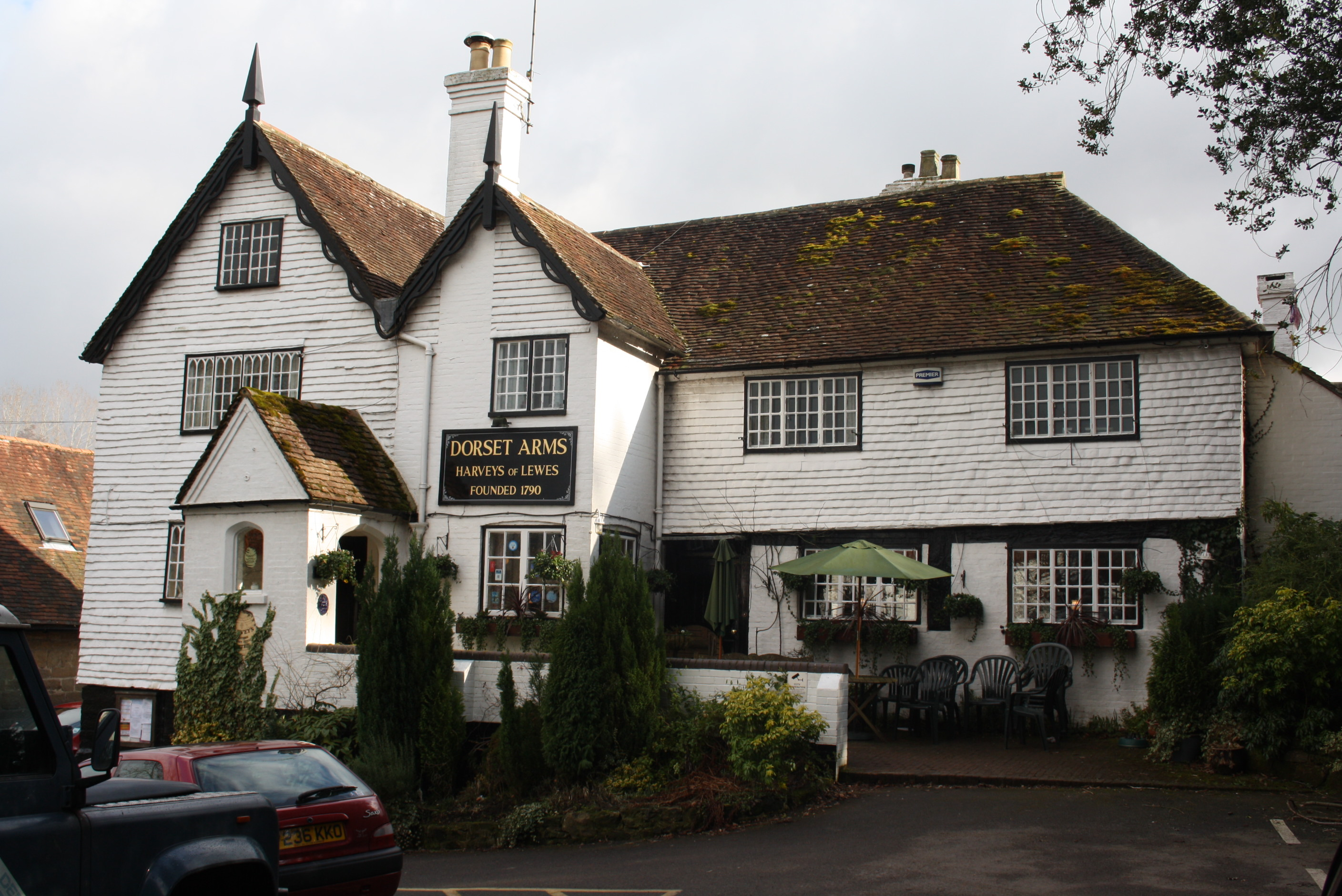 Dorset Arms public house in Withyham